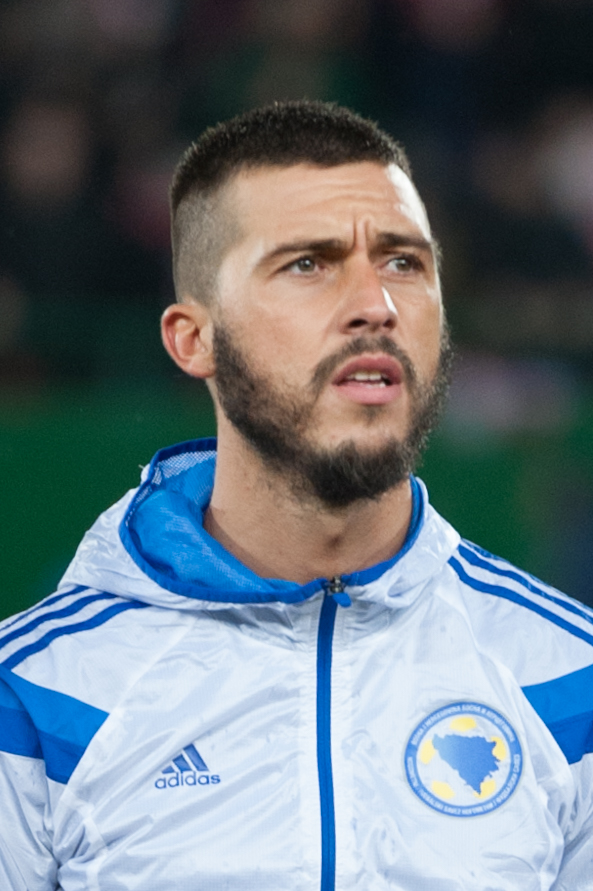 International friendly Austria vs. Bosnia and Herzegovina, 2015-03-31, Vienna